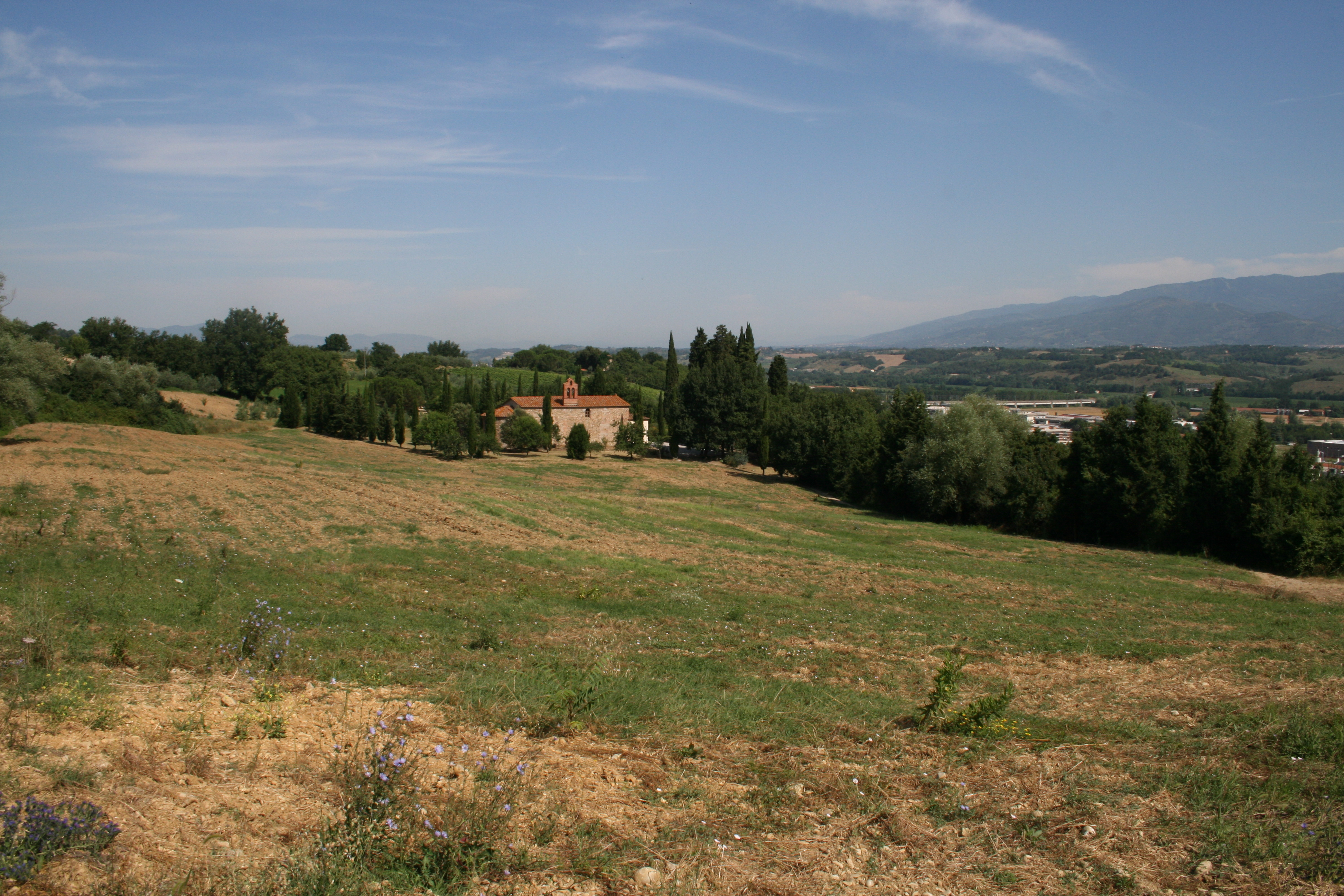 The plain of Castelvecchio on Monteleoni Hill that untill XIII century was occupied by the Leona Castle in Levane